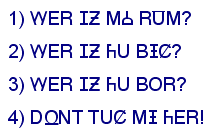 Four essential travel phrases in Unifon alphabet: 1) Where is my room? - 2) Where is the beach? - 3) Where is the bar? - 4) Don't touch me there!